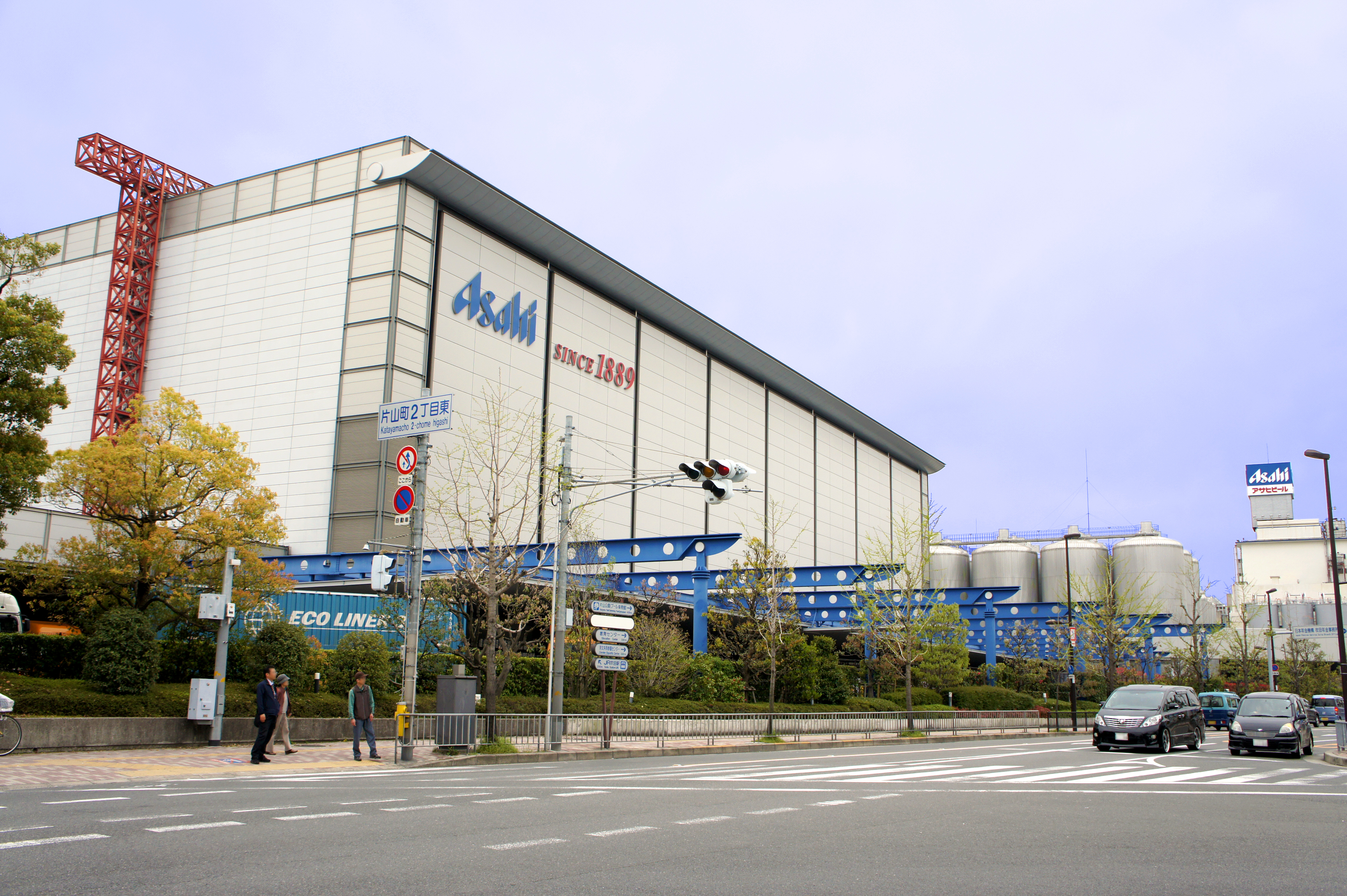 ASAHI BEER Suita Brewery, 1-45 Nishinosho-machi Suita-City Osaka Japan.